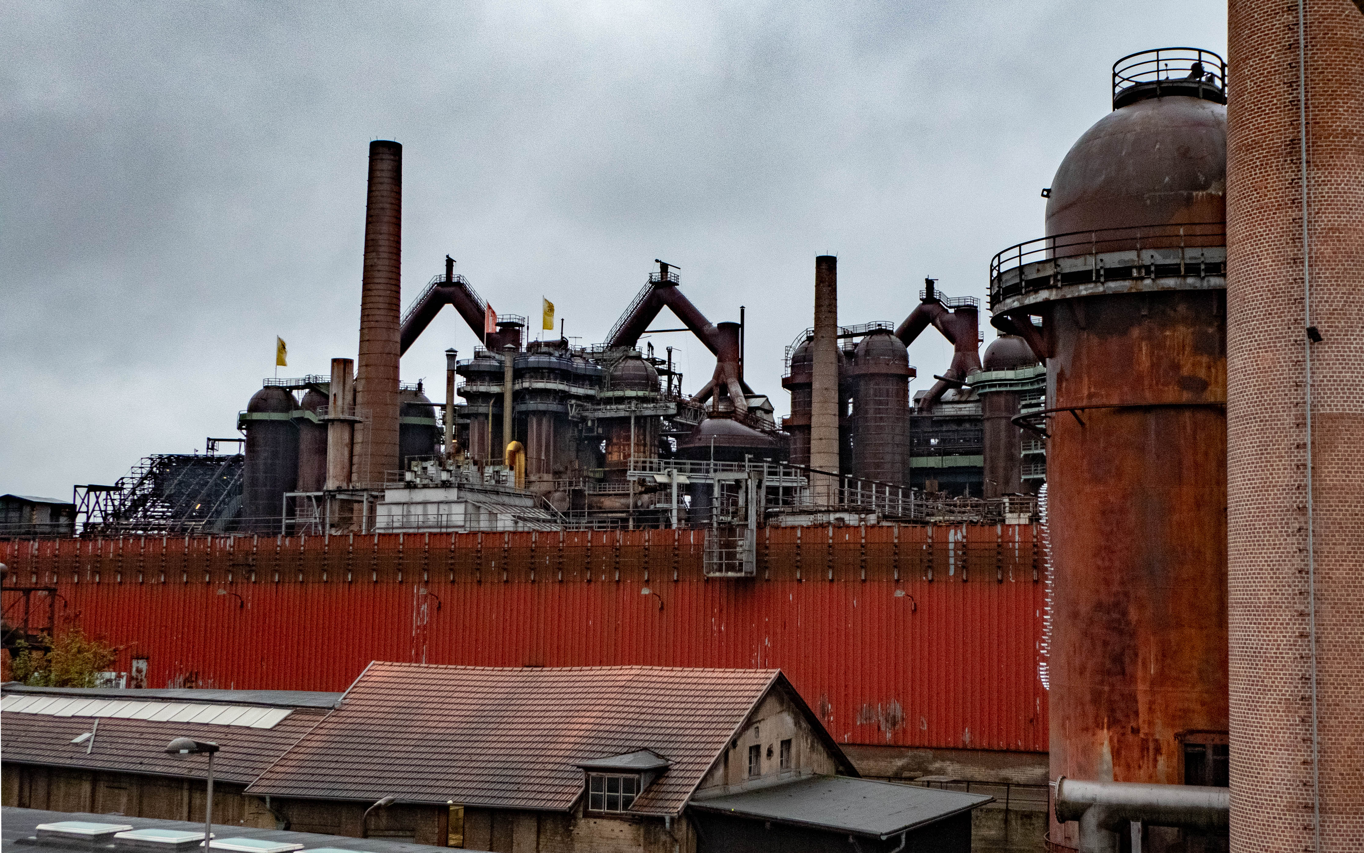 View of the Ironworks.